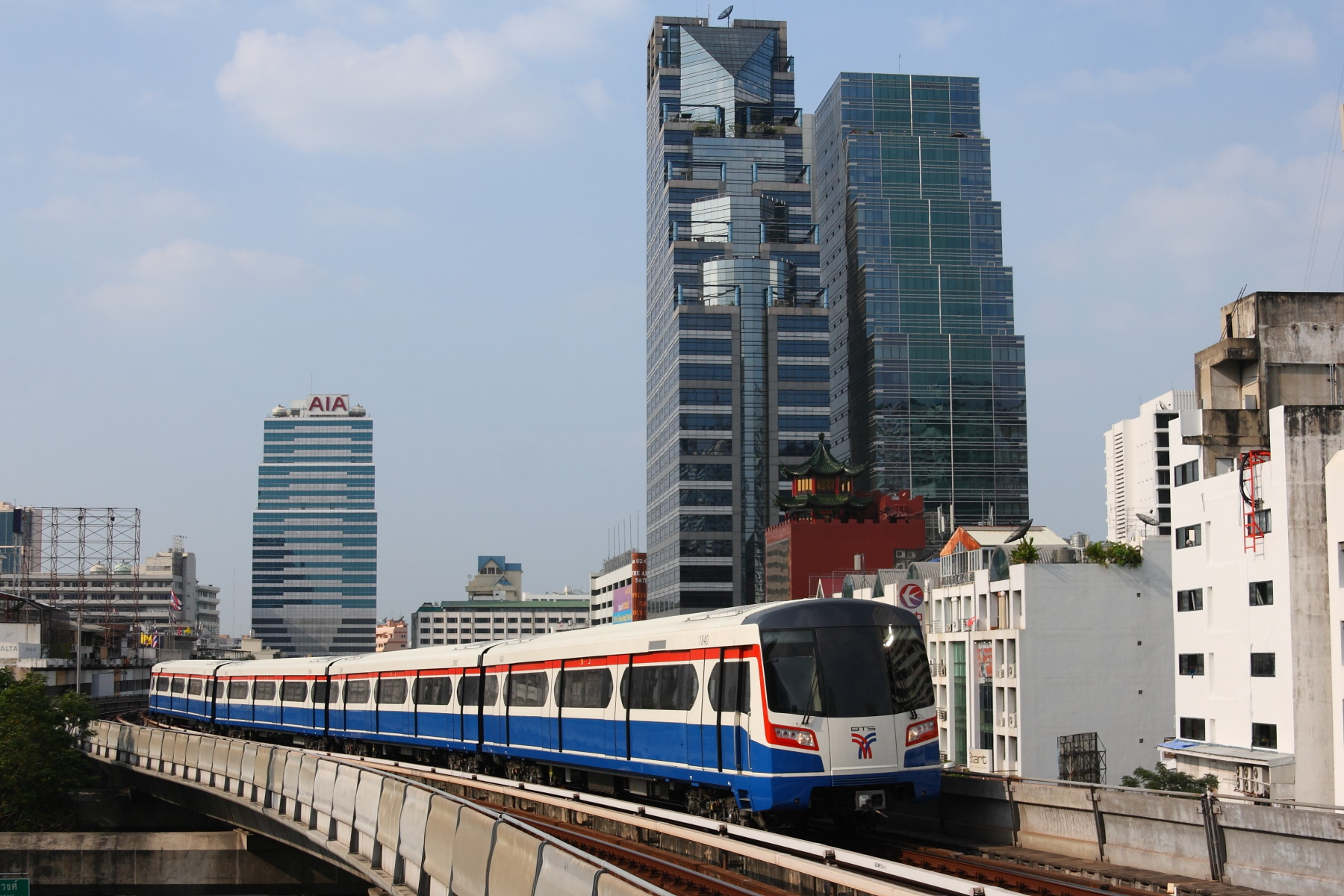 Bangkok Skytrain. A new train manufactured by Changchun Railway Vehicles approaches Chong Nonsi station.